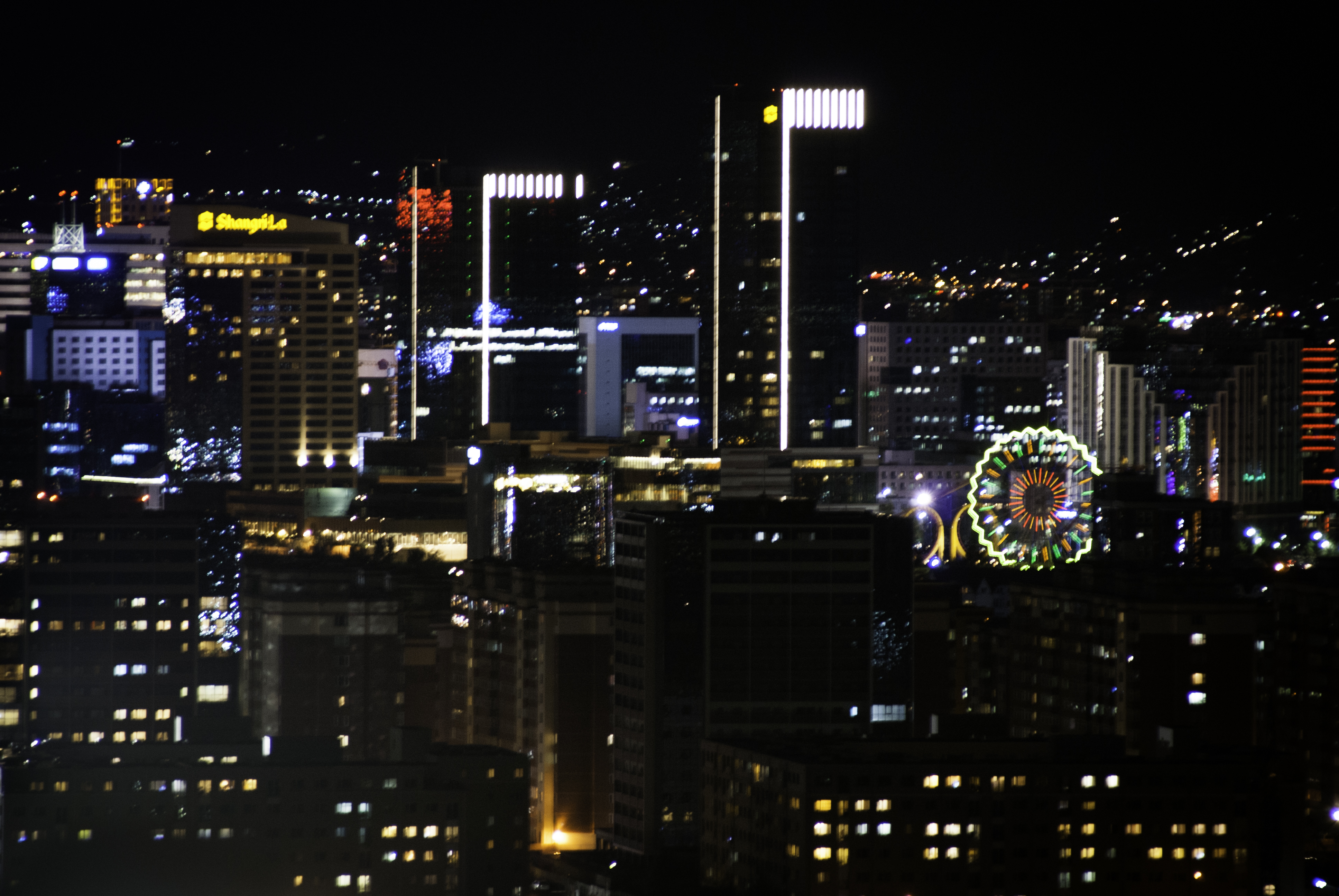 Photographed from top of mountain